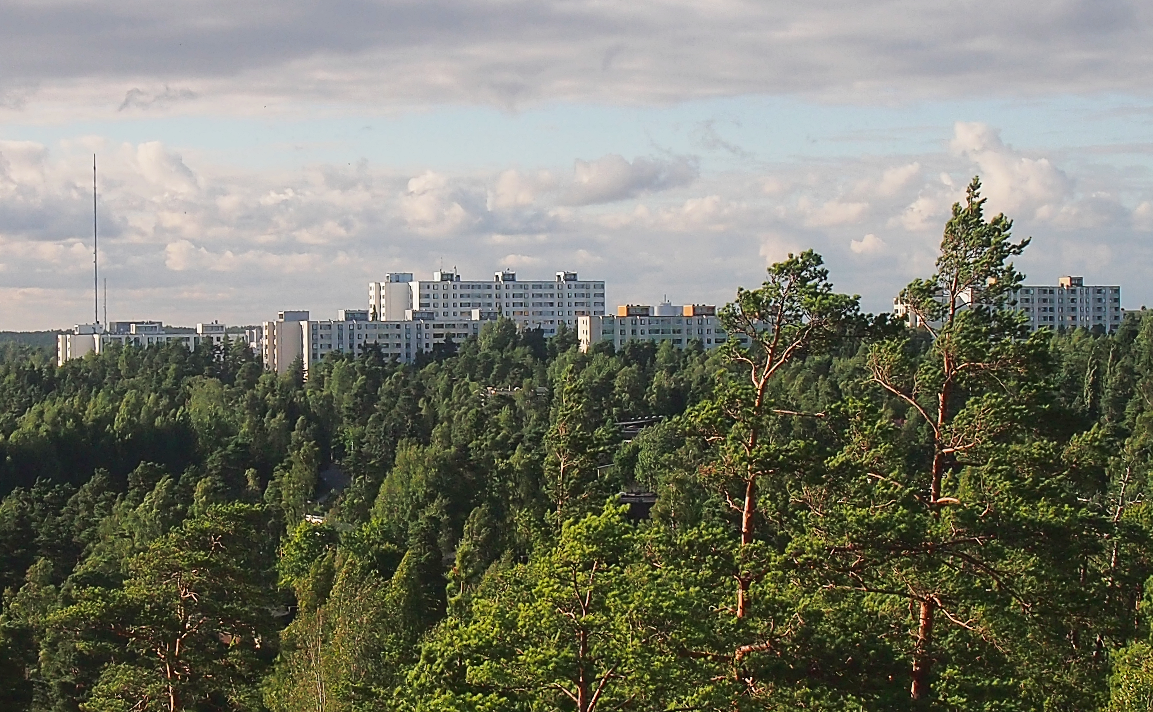 A northbound view from the hill Kasavuori. In the suburbia of Soukka 15 kilometers west of downtown Helsinki, Finland.